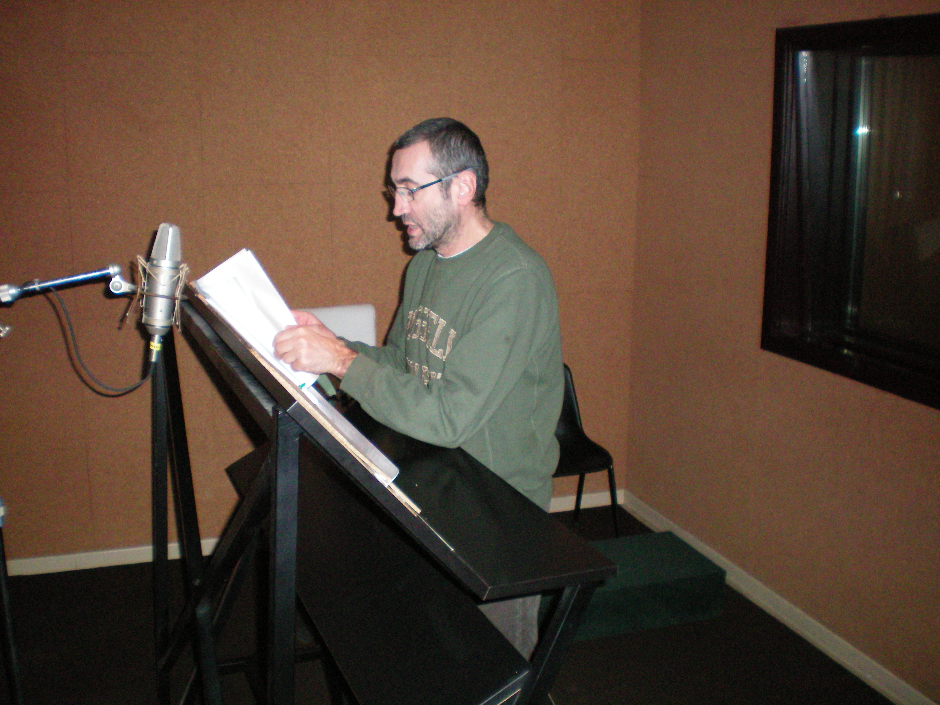 Oliviero Corbetta performing at dubbing Detective Conan